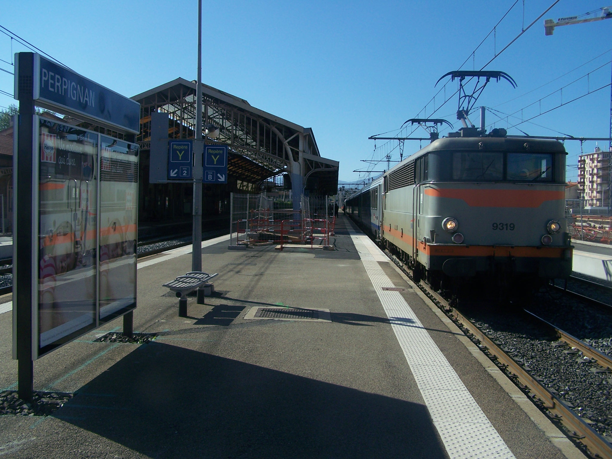 A French regional train about to leave the station of Perpignan (Pyrénées-Orientales) to join Avignon (Vaucluse) on a sunny morning.